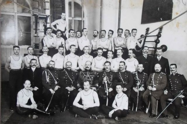 Офицеры-преподаватели Главной гимнастическо-фехтовальной школы в Питере